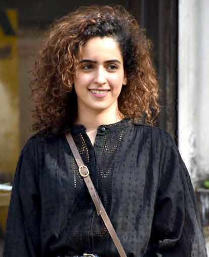 Sanya Malhotra spotted at Silver Beach Cafe, Juhu